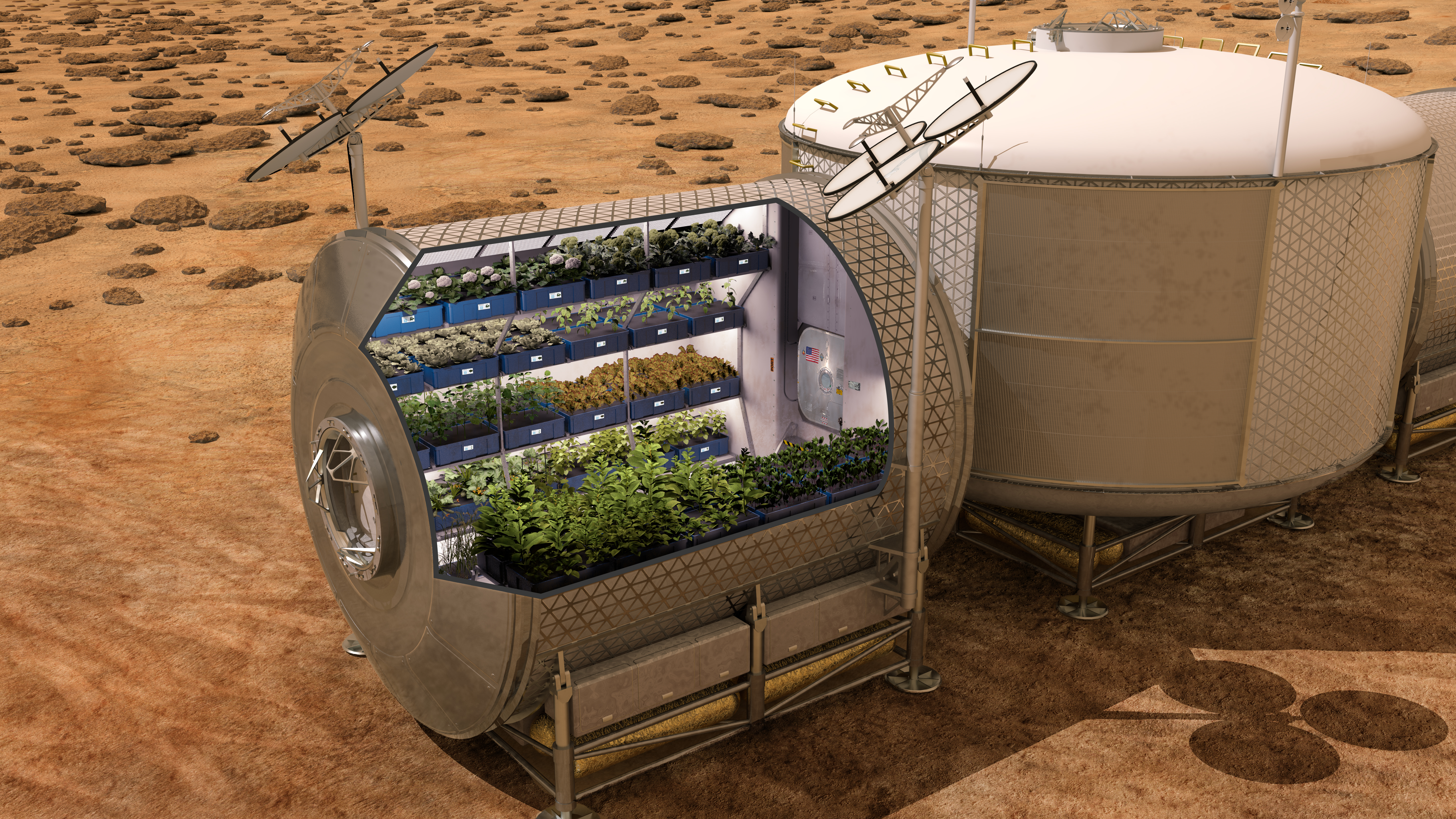 NASA plans to grow food on future spacecraft and on other planets as a food supplement for astronauts. Fresh food, such as vegetables, provide essential vitamins and nutrients that will help enable sustainable deep space pioneering.